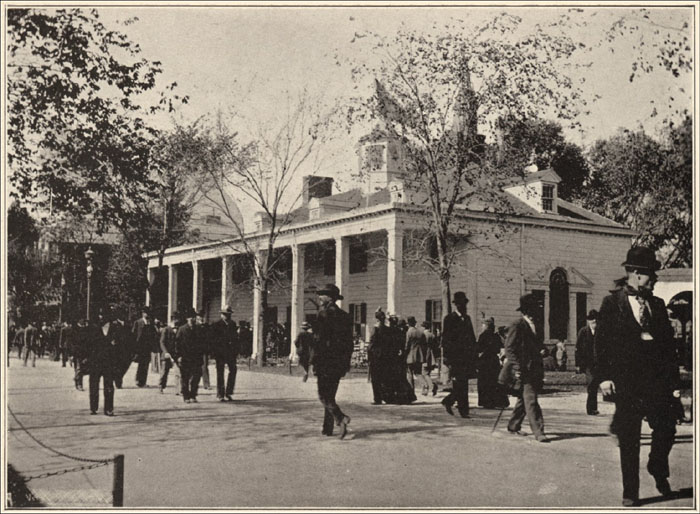 Virginia State Building. World's Columbian Exposition. Digitial Identifier: GN90799d_CON_164w World's Columbian Exposition Collection at The Field Museum